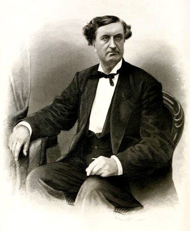 Depicted person: Zachariah Chandler – American politician